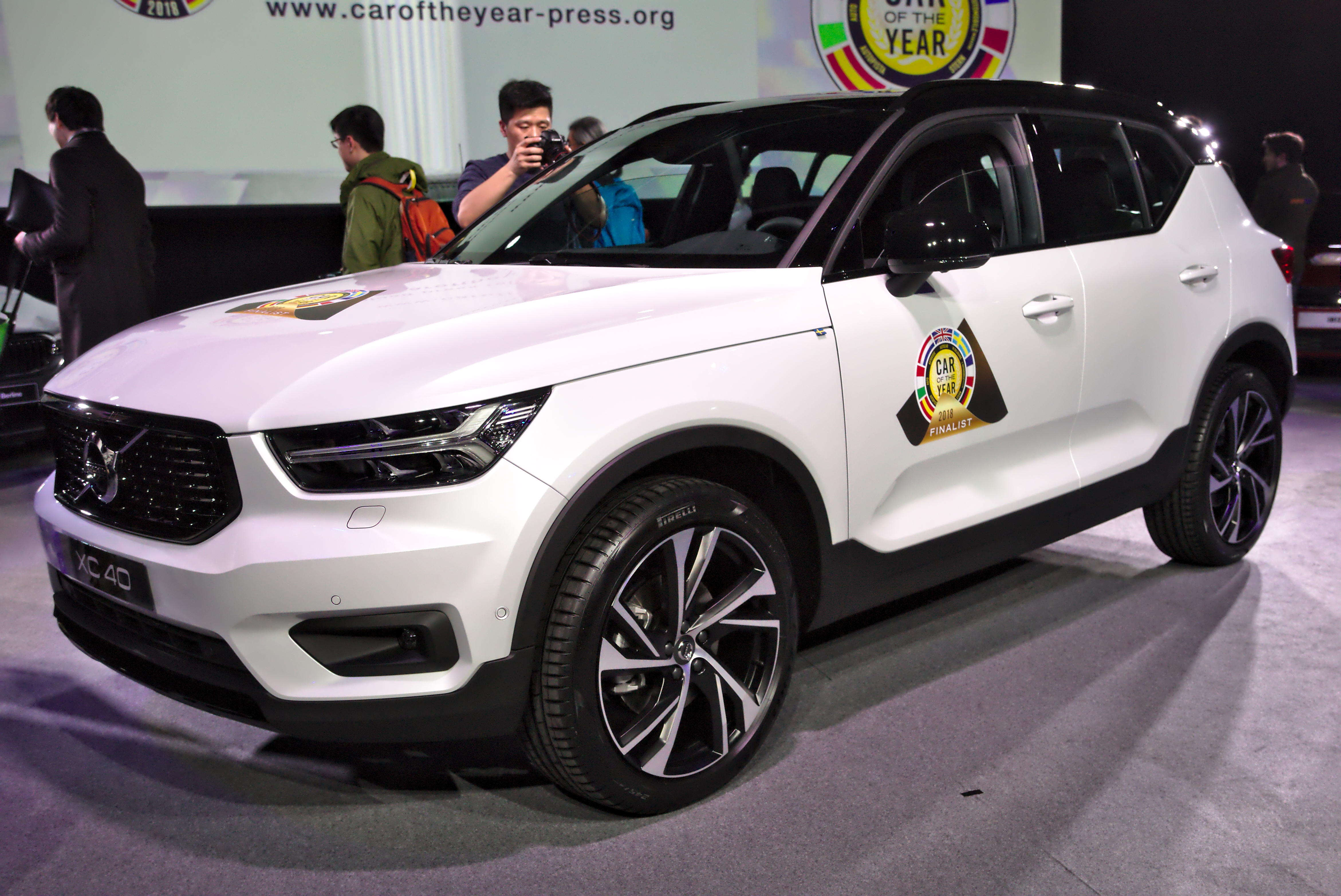 Volvo XC40: Car of the Year Presentation 2018 in Geneva